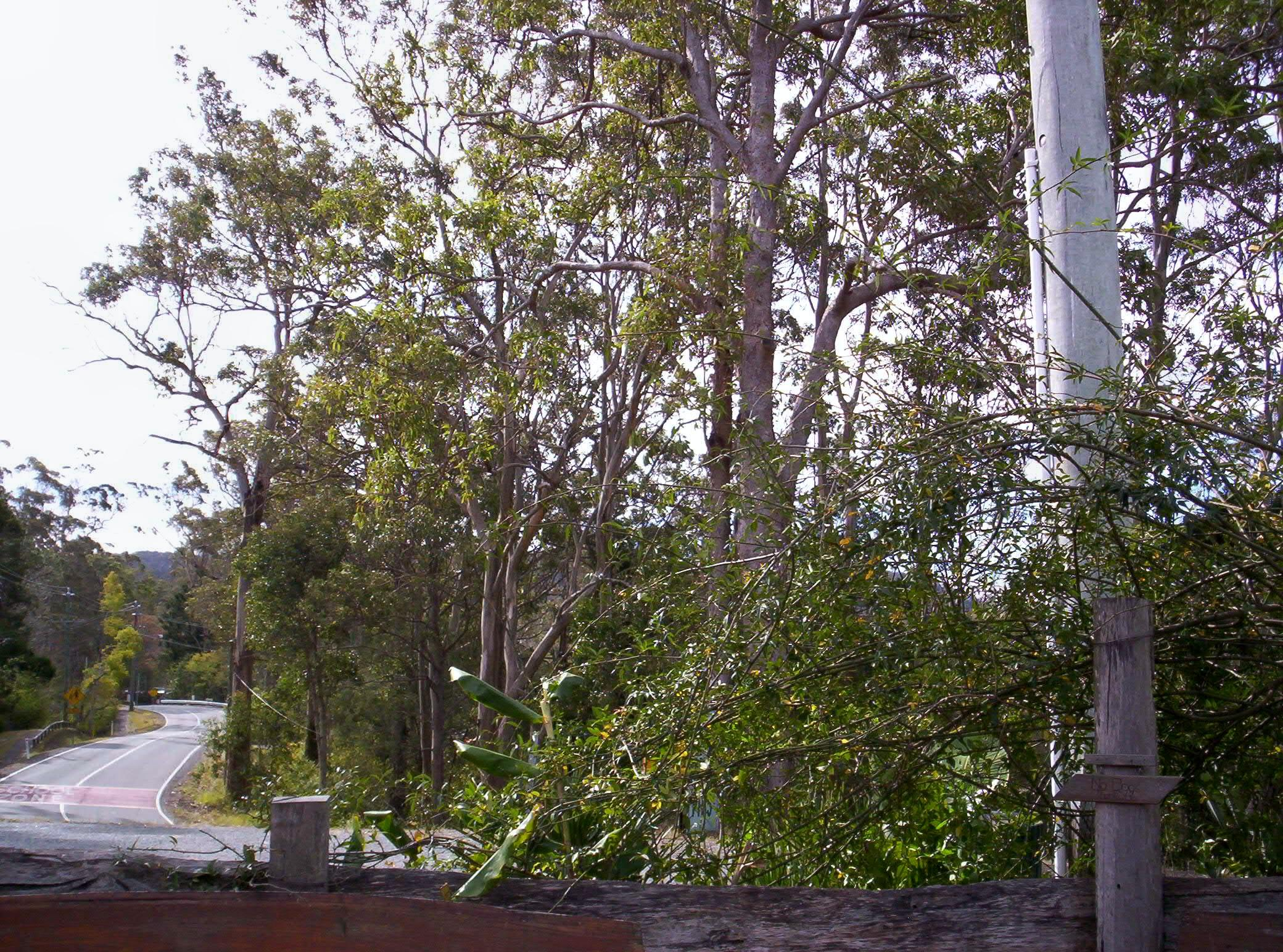 Photo of Mount Nebo was taken in July, 2007